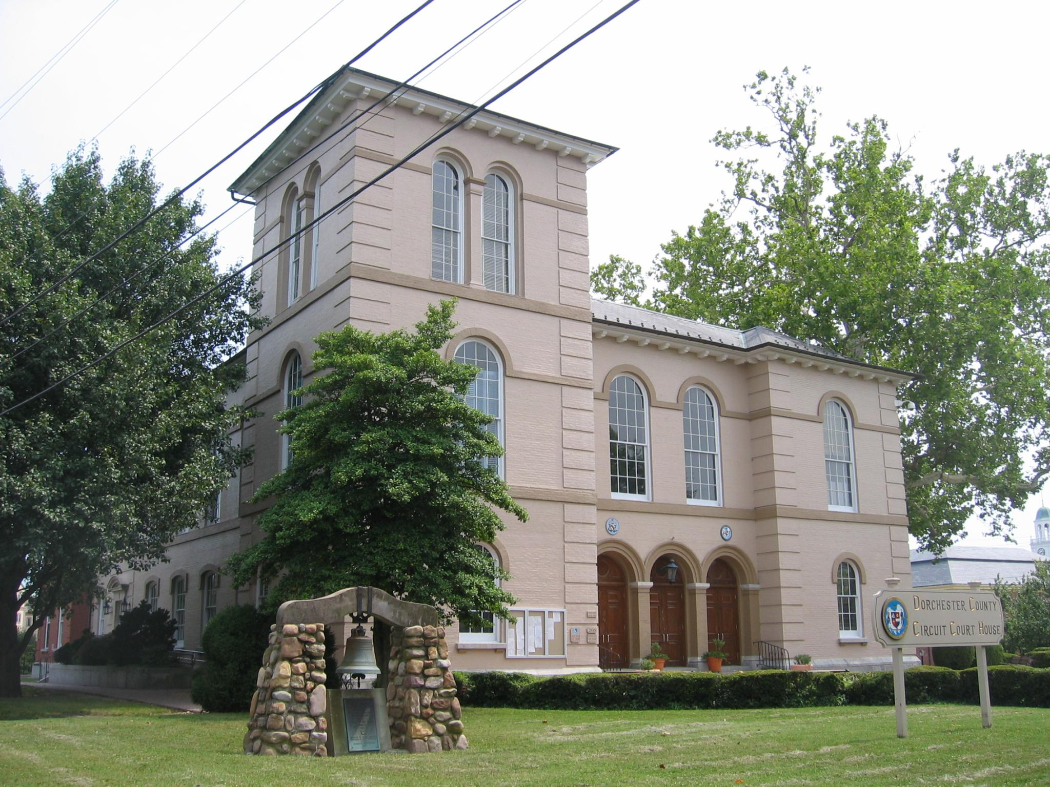 A view facing south of the Dorchester County Courthouse. Sitting in front of the Courthouse is a bell taken from a Monastery in Mexico during the Mexican-American War in 1846 that served as a fire alarm in Cambridge until 1883.